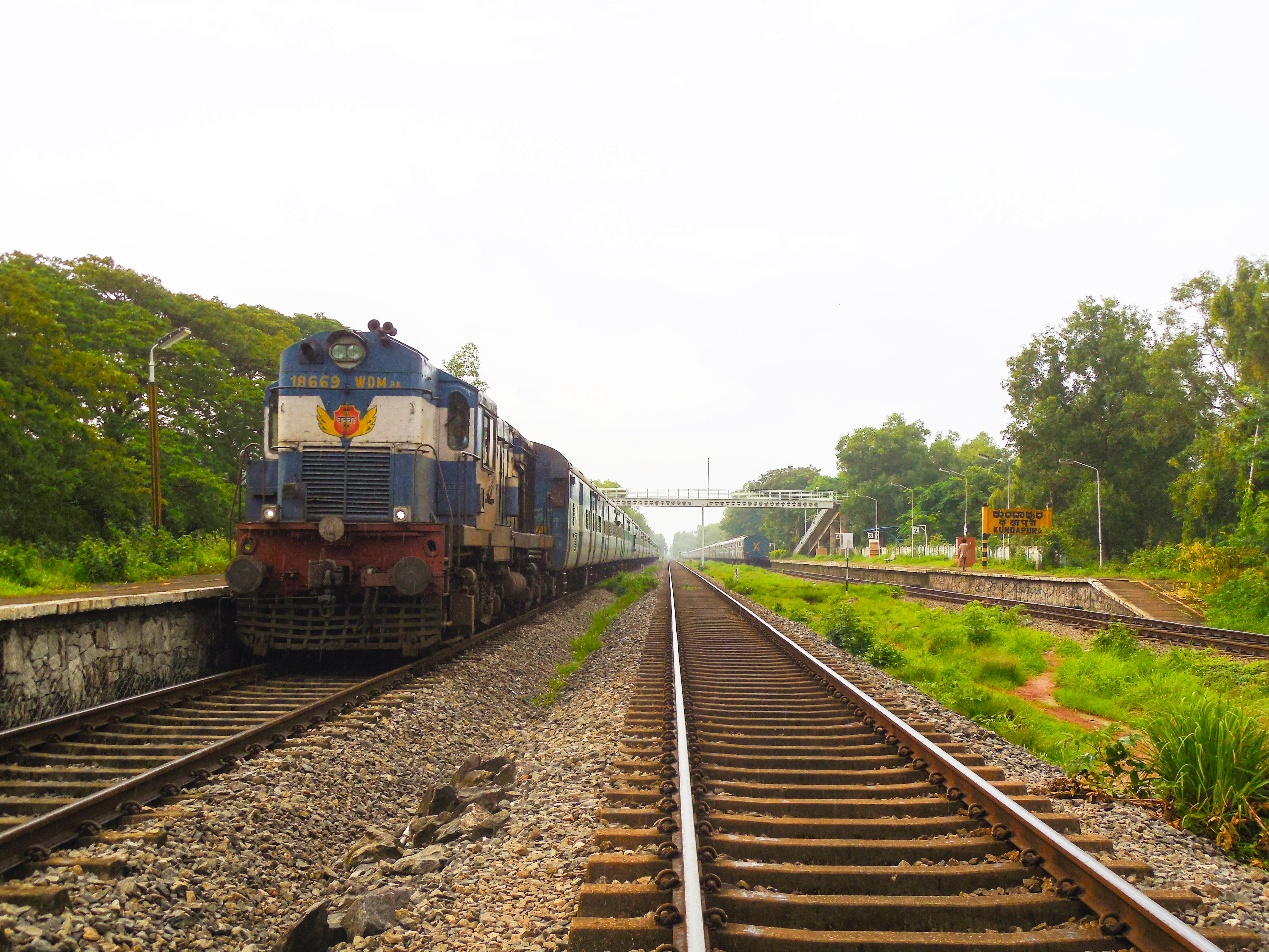 VTA WDM-3A 18669 waiting patiently at platform 2 of Kundapura with 19259 Kochuveli - Bhavnagar Express...